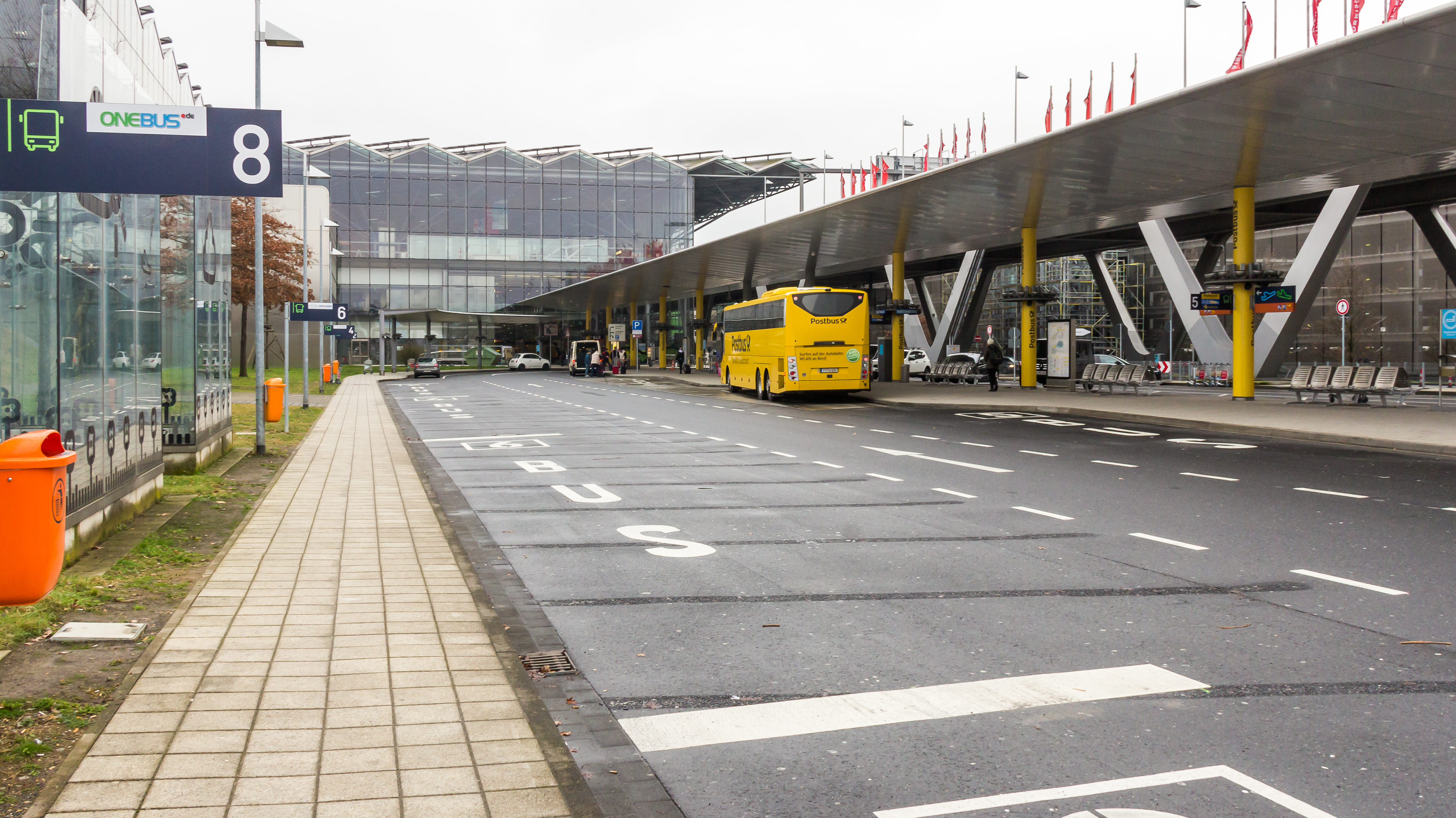 Long-distance coach terminal Airport Köln-Bonn